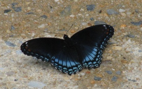 Limenitis arthemis astyanax